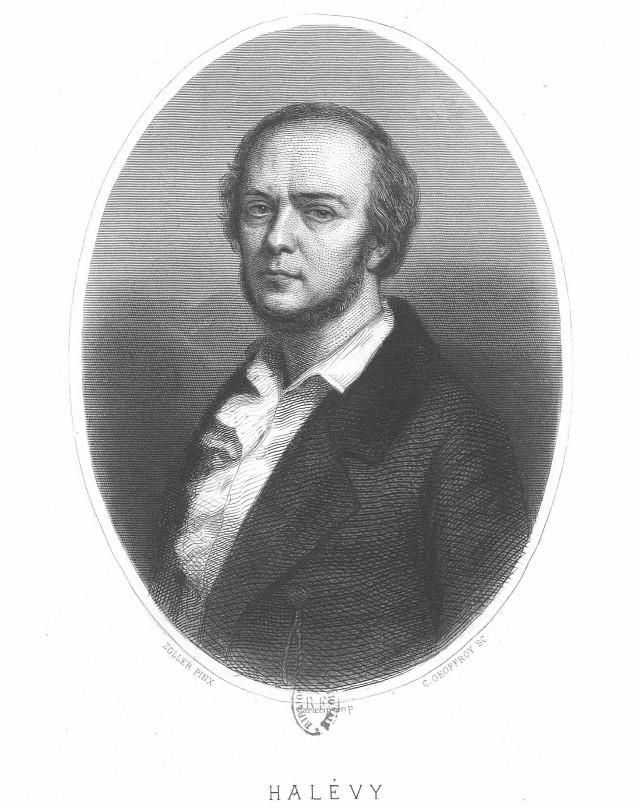 Portrait of French composer Jacques Fromental Halévy (1799–1862) by Charles-Michel Geoffroy (1819-1882): downloaded from Bibliothèque nationale de France